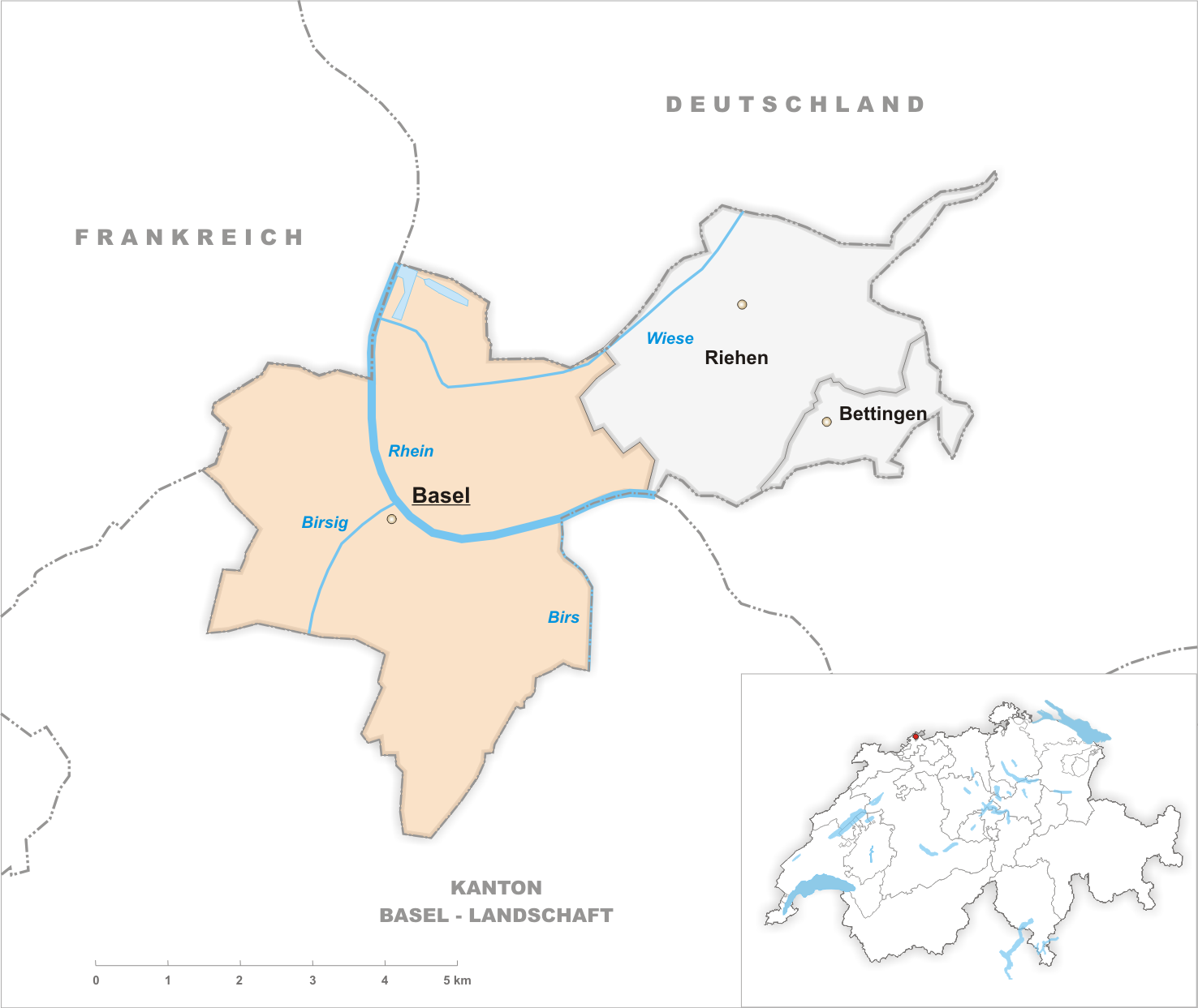 Municipality of Basel